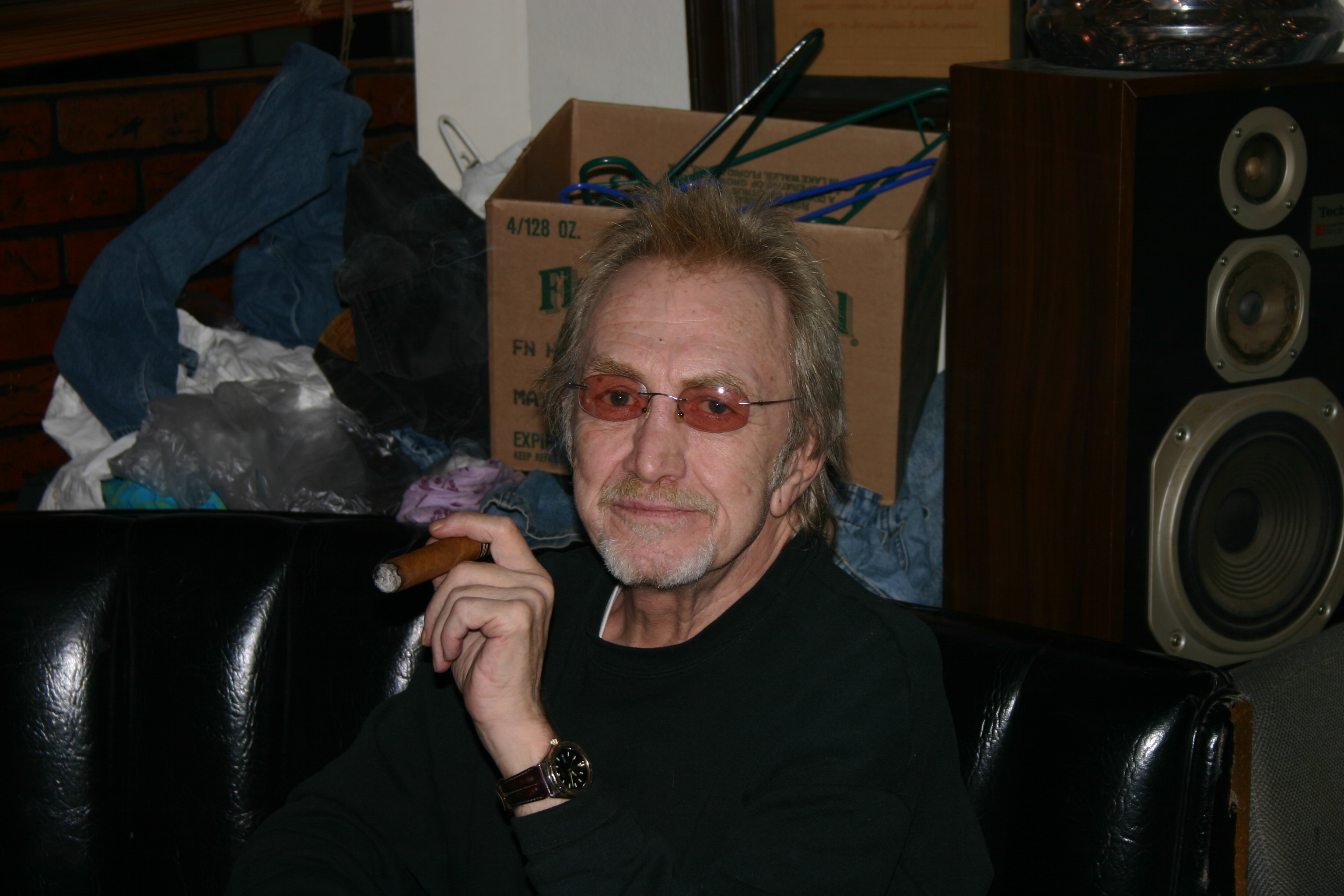 Photo of Dewey Martin of Buffalo Springfield